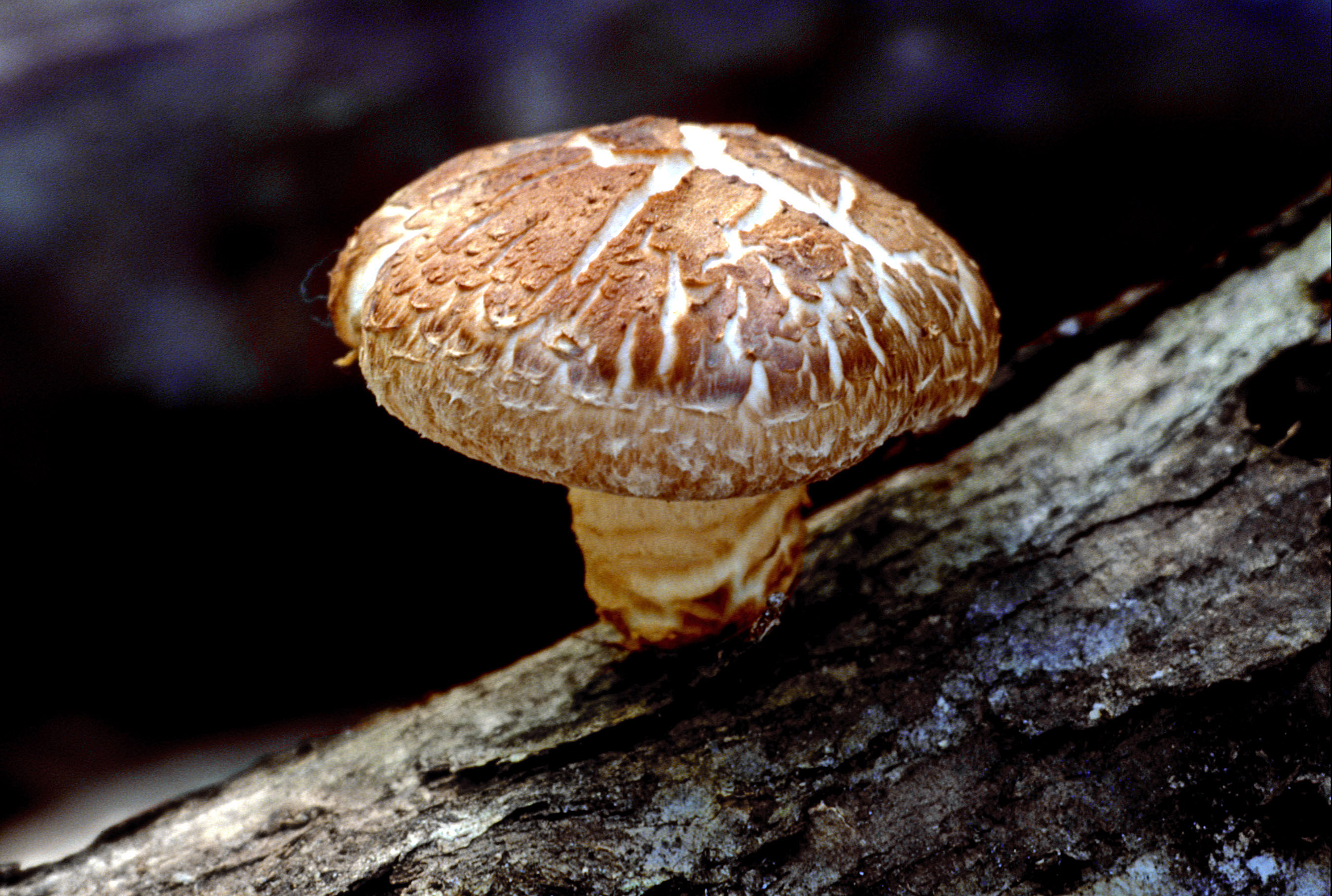 Shiitake mushroom (Lentinus edodes)